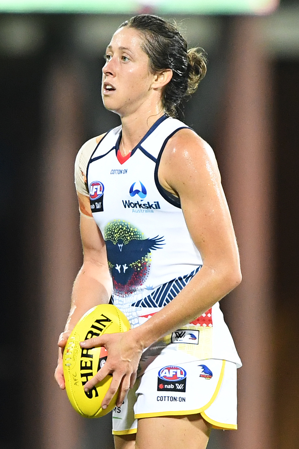 Renee Forth of Adelaide during the 2019 AFL Women's practice match between the Adelaide Football Club and Fremantle Football Club at TIO Stadium on January 19, 2019 in Darwin Australia.